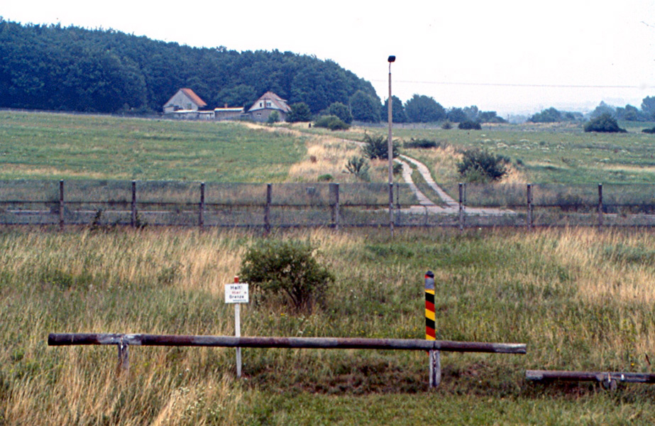 Looking into East Germany from a platform near Grasleben. I was on my way to Heidwinkel, where I was stationed in the Army from August 1960 to May 1961. These locations are north of Helmstedt. I took this photo in July 1989. I did not know that the Wall would come down in less than four months.